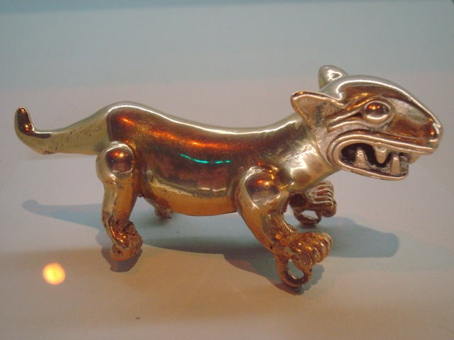 Feline-shapped pendant. Rings below front paws indicate that such objects were worn suspended vertically. Southern Pacific of Costa Rica. 700-1550 AD. 4.9 x 12 cm. Museum of Pre-Columbian Gold, San Jose, Costa Rica.